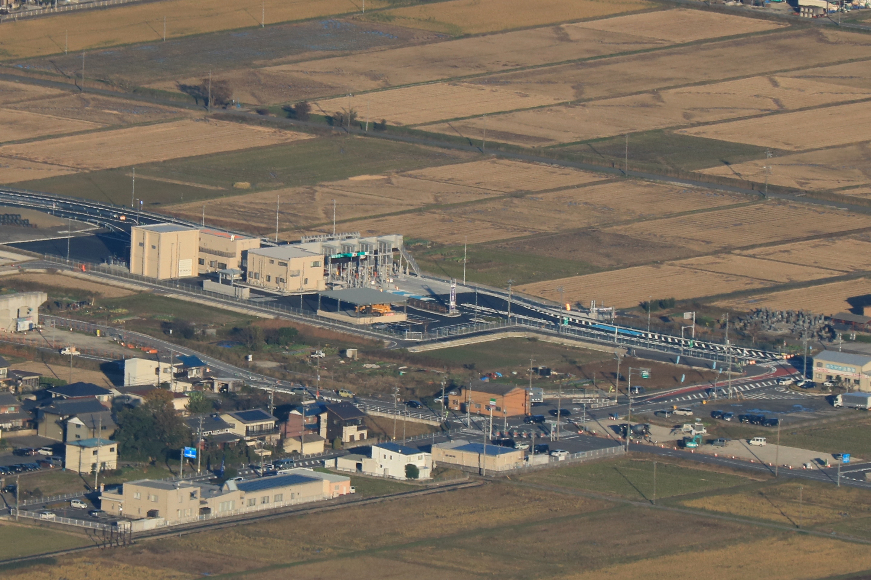 Yoro Interchange and Gifu Prefectural Road Route 213 seen from Yoro Mountains in Yoro, Gifu Prefecture, Japan.